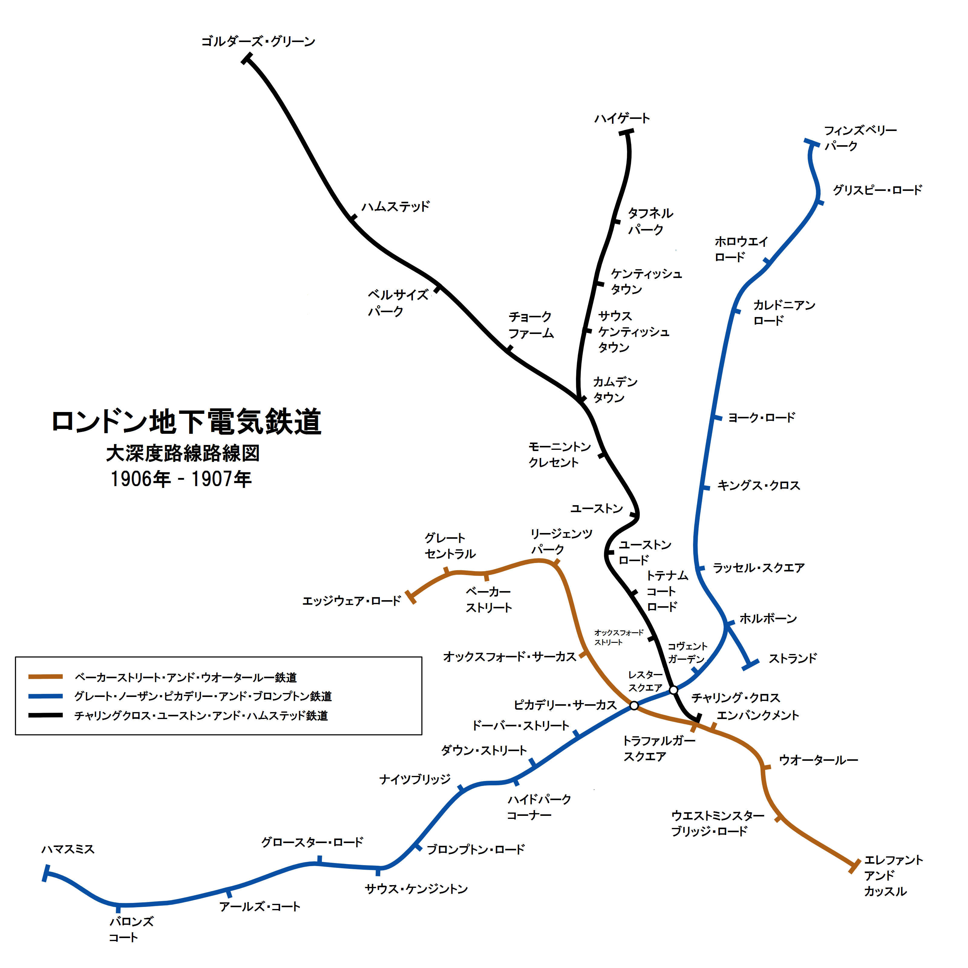 Translated from File:UERL map 1907.png at 00:37, 12 January 2015 Geographic map of the Underground Electric Railways Company of London Limited's (UERL's) deep level tube routes as they were in 1907.